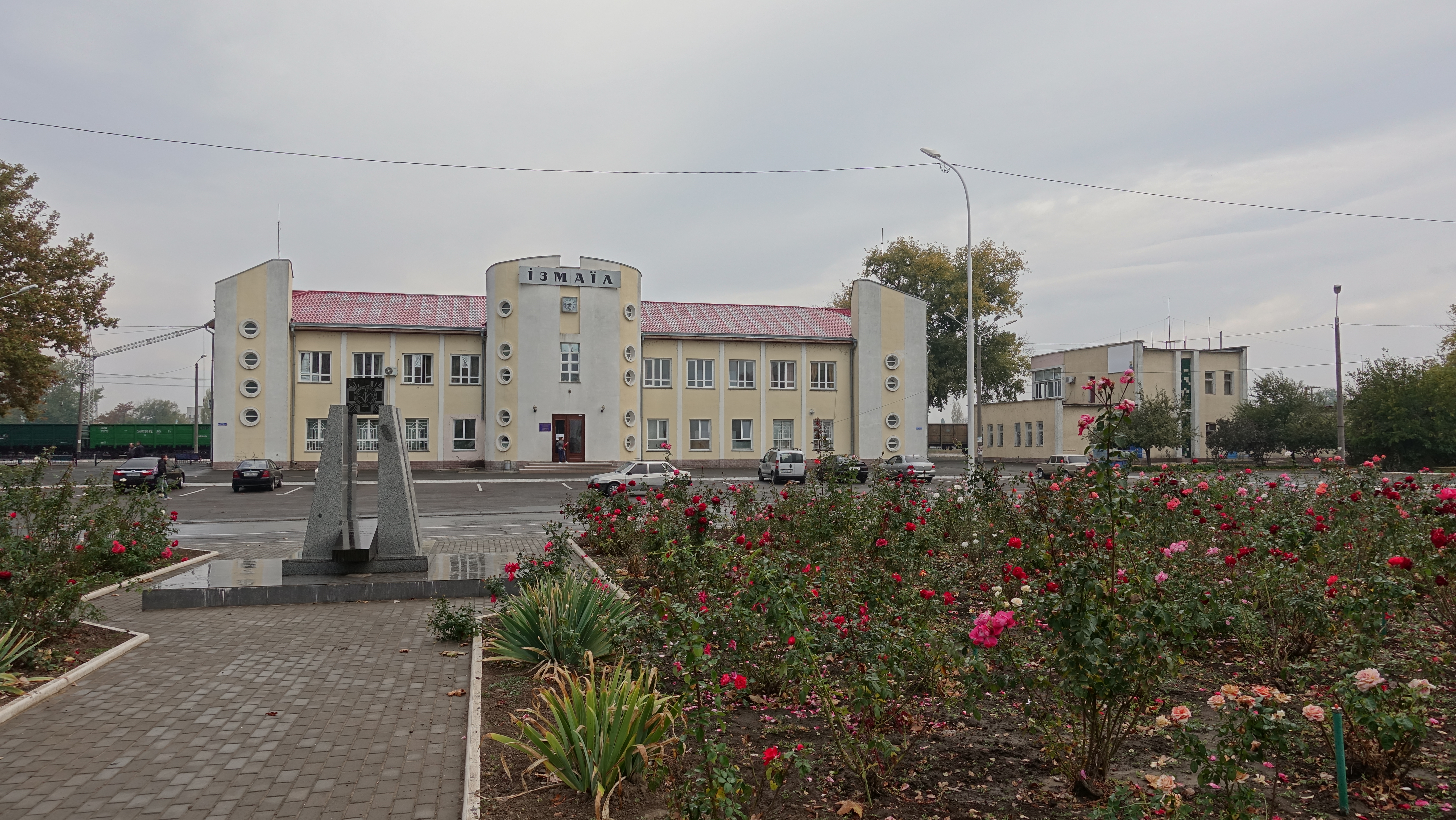 Izmail railway station